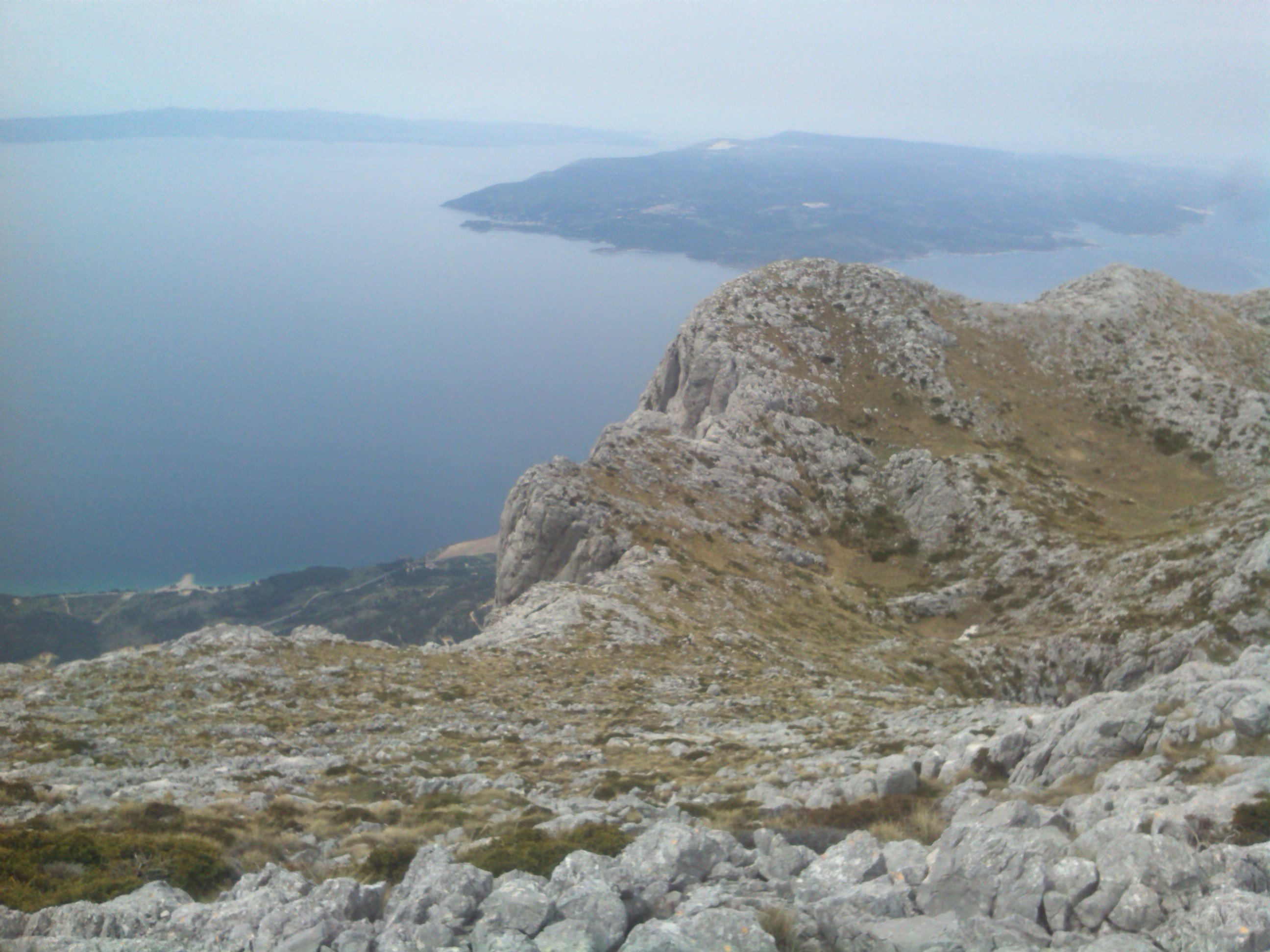 Island of Brač from Biokovo